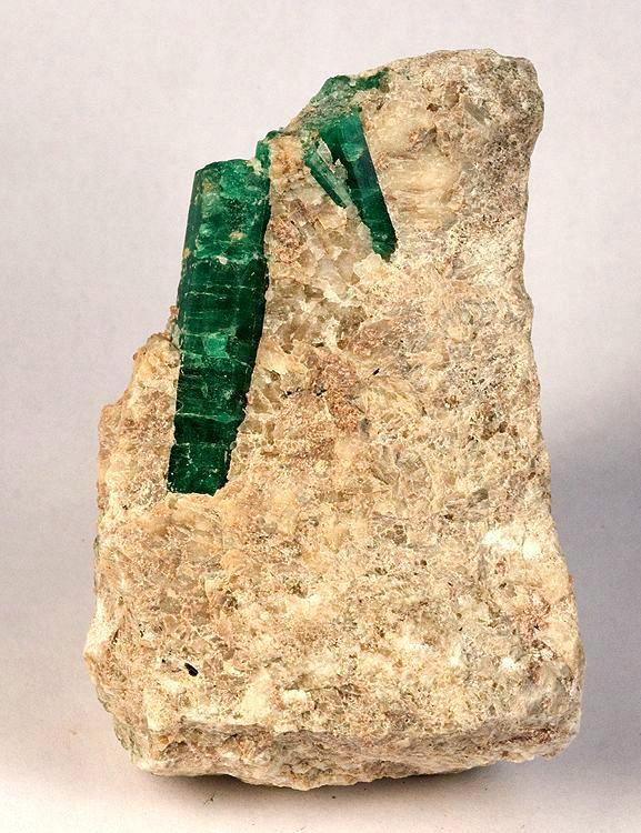 Beryl (Var.: Emerald) Locality: Dayakou, Nanwenhe complex, Malipo County, Wenshan Autonomous Prefecture, Yunnan Province, China (Locality at ) Size: 7.5 x 6.0 x 5.1 cm. A 3.8 cm, vivid green, emerald crystal is aesthetically set in quartz-rich matrix on this showy specimen from recent Chinese finds. The sharp, prismatic crystal is lustrous and translucent. Highly representative of the species and locale, despite the broken terminations. Ex. Wesley Stark Collection.